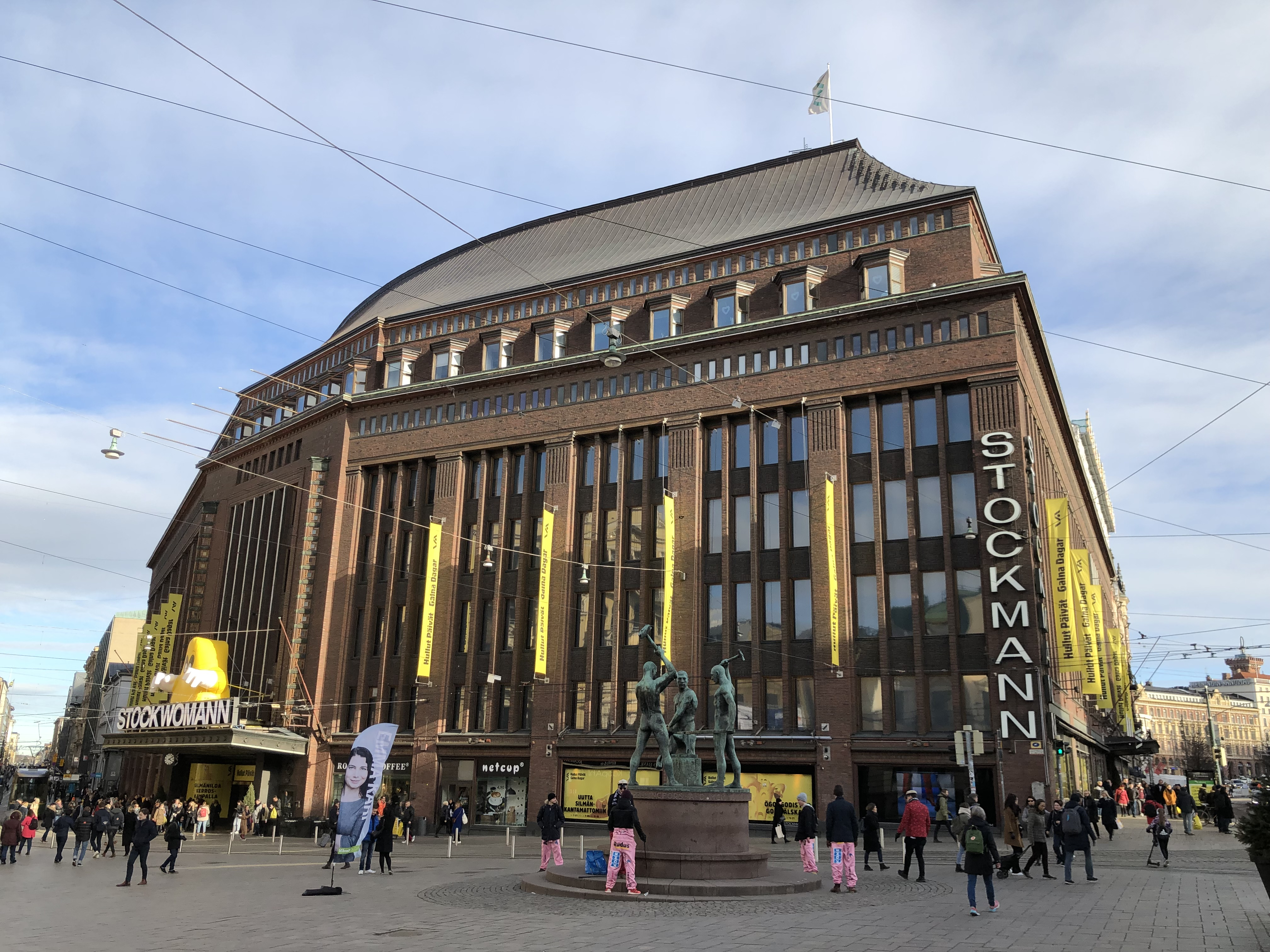 Stockmann Helsinki centre during Hullut Päivät campaign in March 2019.